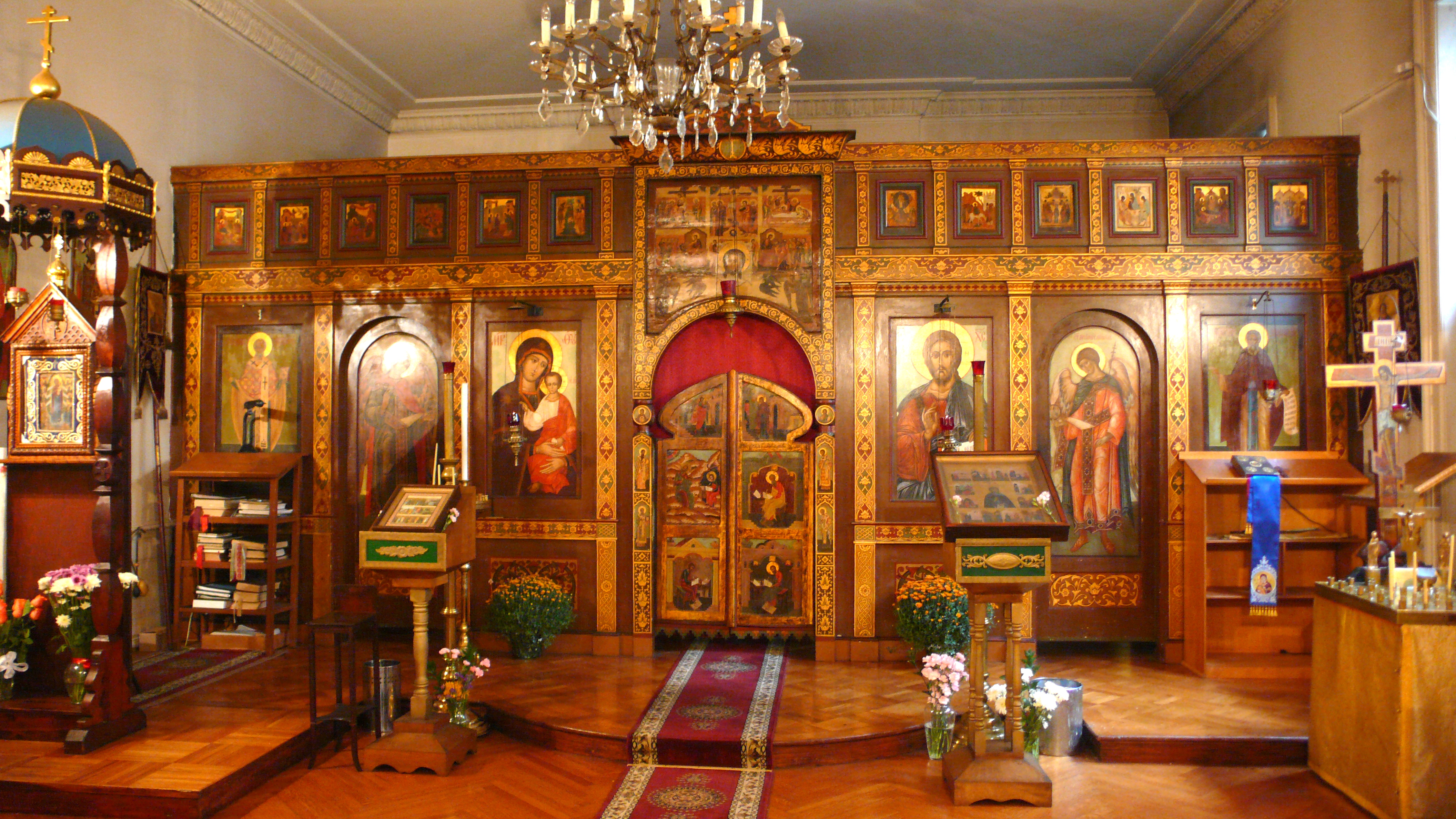 The Russian Orthodox Church Outside Russia chapel, 75 E 93rd Street, New York City.